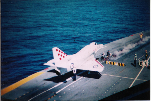 A Douglas A-4G Skyhawk jet on the Australian aircraft carrier HMAS Melbourne in 1976. The aircraft No. 874 (serial number N13-155061) was one of eight A-4F obtained from the U.S. Navy as replacements for operational losses of the original Australian A-4Gs. Originally it flew with the U.S. Navy attack squadron VA-212 Rampant Raiders as part of Attack Carrier Air Wing 21 (CVW-21) as "NP-300" aboard the carrier USS Hancock (CVA-19) and was deployed to Vietnam in 1969/70. It was delivered to the Royal Australian Navy in Aug 1971. Unloaded from HMAS Sydney onto RAN Lighter AWL 304 at Jervis Bay on 11 August 1971, it was then transported by land to the airbase at RAN Nowra. It entered service with fighter squadron VF-805 Checkmates on 1 June 1972. It was deployed on HMAS Melbourne from 28 Apr to 4 Oct 1977 (the so-called "Spithead Deployment"). It could be viewed at the Greenham Common Air Tatoo (Berkshire, UK) on 25/26 June 1977. It also took part in the "Highwood" exercise, 5-20 July 1977, in the North Sea. It was withdrawn from RAN service on 30 June 1983 and stored for sale. In July 1984 it was sold to New Zealand, serial number NZ6216, now desgnated as an A-4K. It was retired by the RNZAF in 2001/2002.[1]